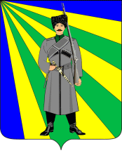 Coat of arms of Novoplastunovskoye, Pavlovskaya Raion, Krasnodar Kray, Russia.